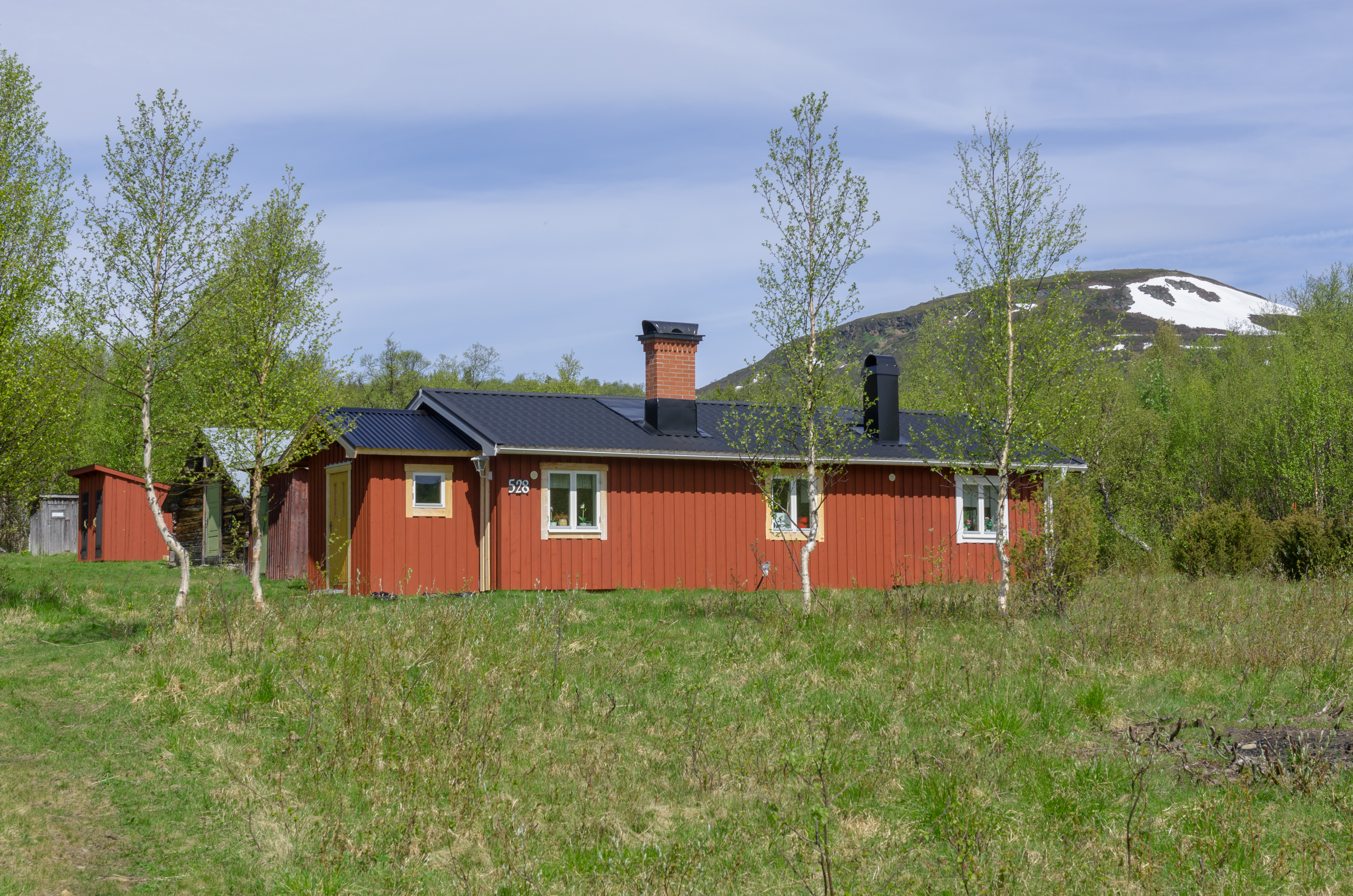 Houses at Bäckevallen.